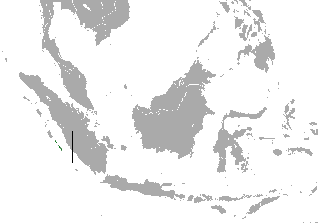 Golden-bellied Treeshrew (Tupaia chrysogaster) range